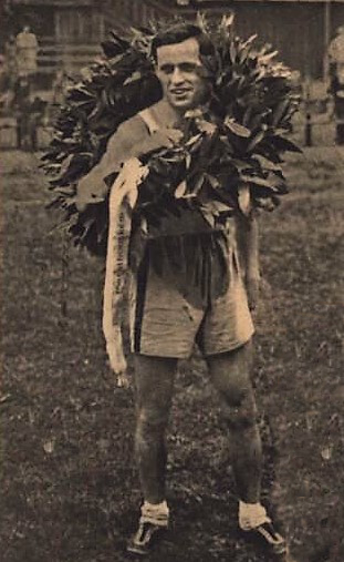 Oskar Hekš, Czech sportsman, 1929